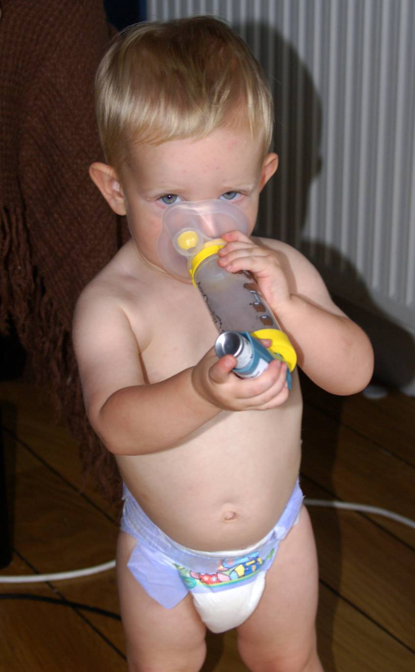 Baby using inhaler and spacer.